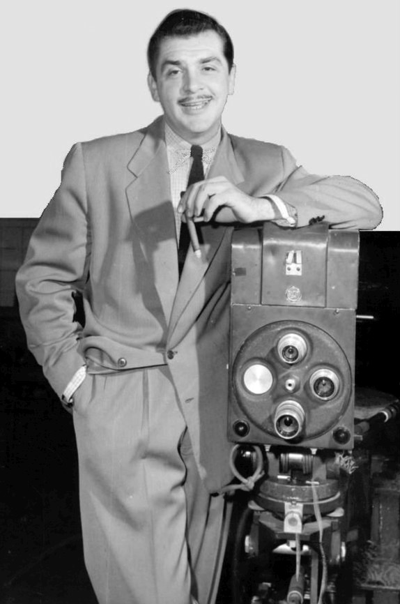 Promotional photo of Ernie Kovacs from his 1956 television show.